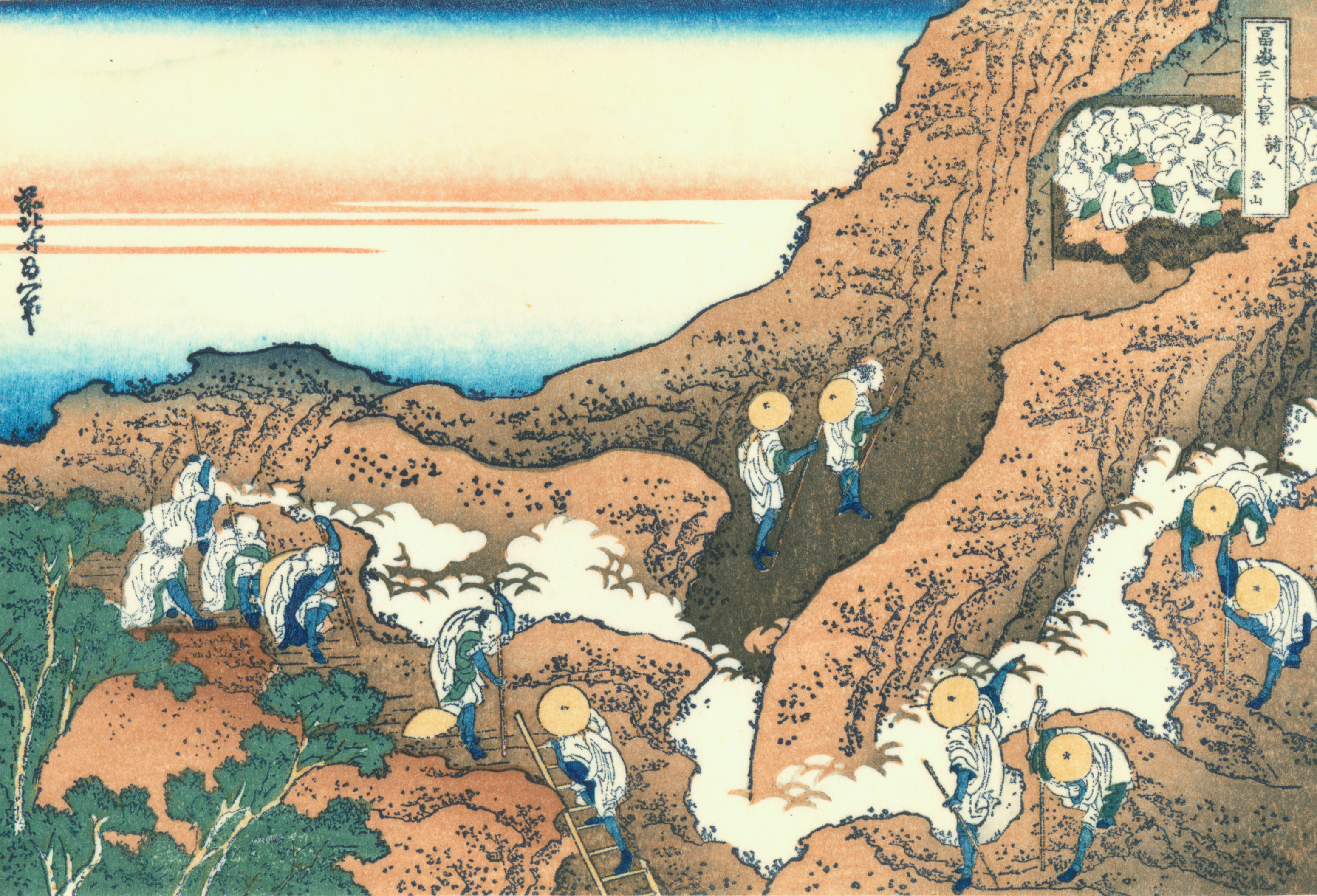 Part of the series Thirty-six Views of Mount Fuji, no. 34.